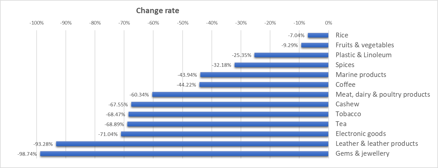 Impact of covid-19 on India's economy. India's exports in April 2020 estimates